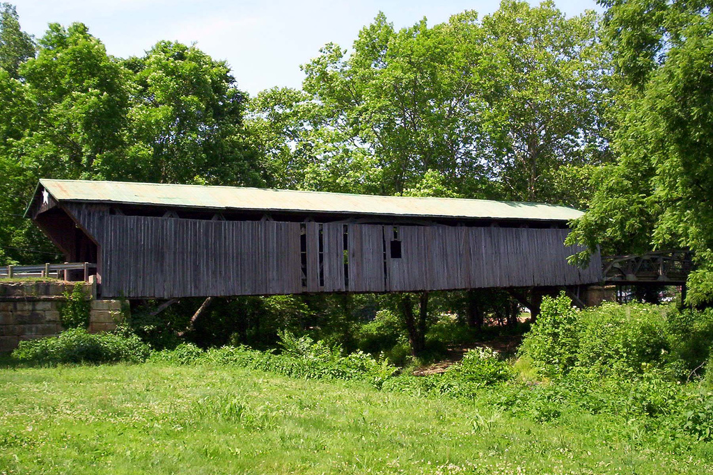 Side of the Otway Covered Bridge, which spans Scioto Brush Creek in Brush Creek Township, Scioto County, Ohio, United States. Built in 1874, the bridge is listed on the National Register of Historic Places.